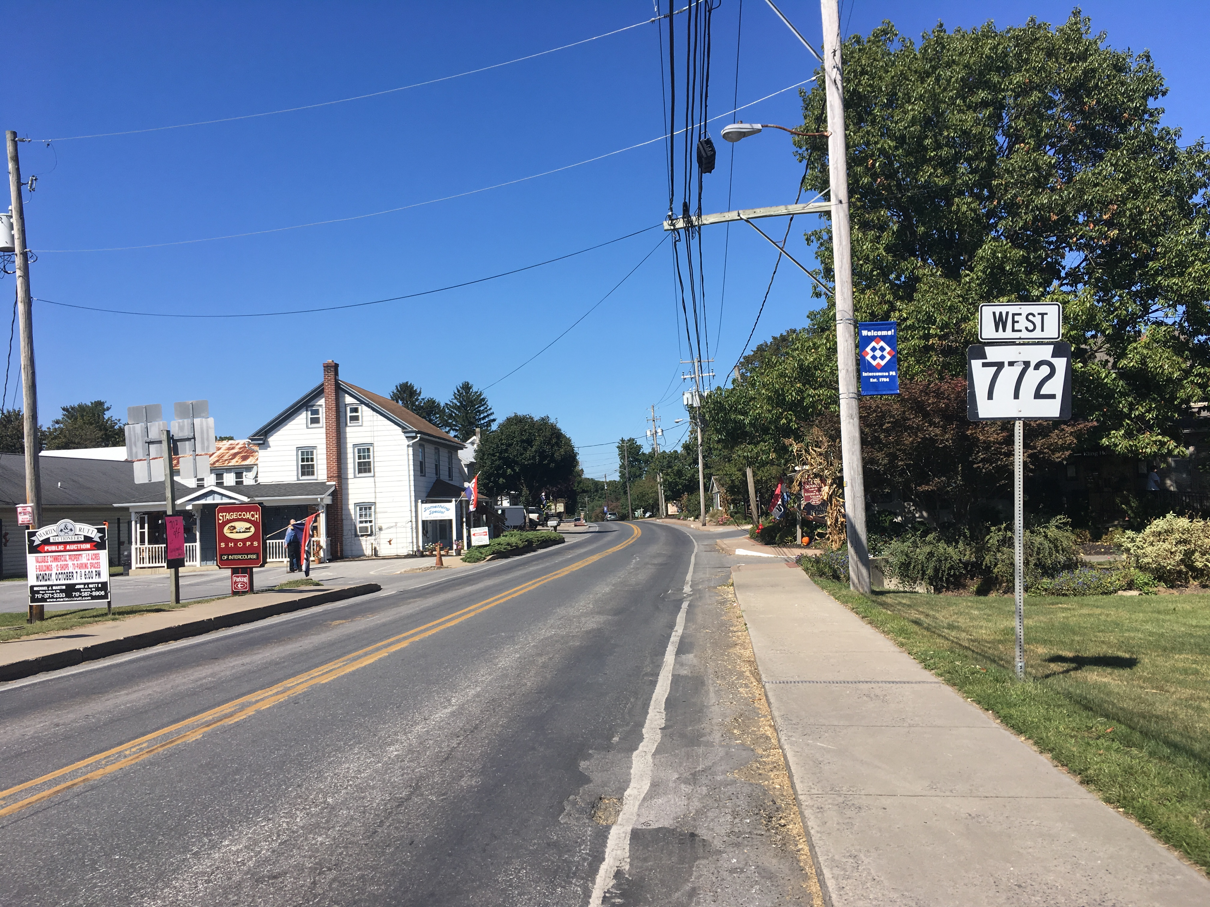 Westbound Pennsylvania Route 772 (Newport Road) past the intersection with Pennsylvania Route 340 (Old Philadelphia Pike/Main Street) in Intercourse, Pennsylvania